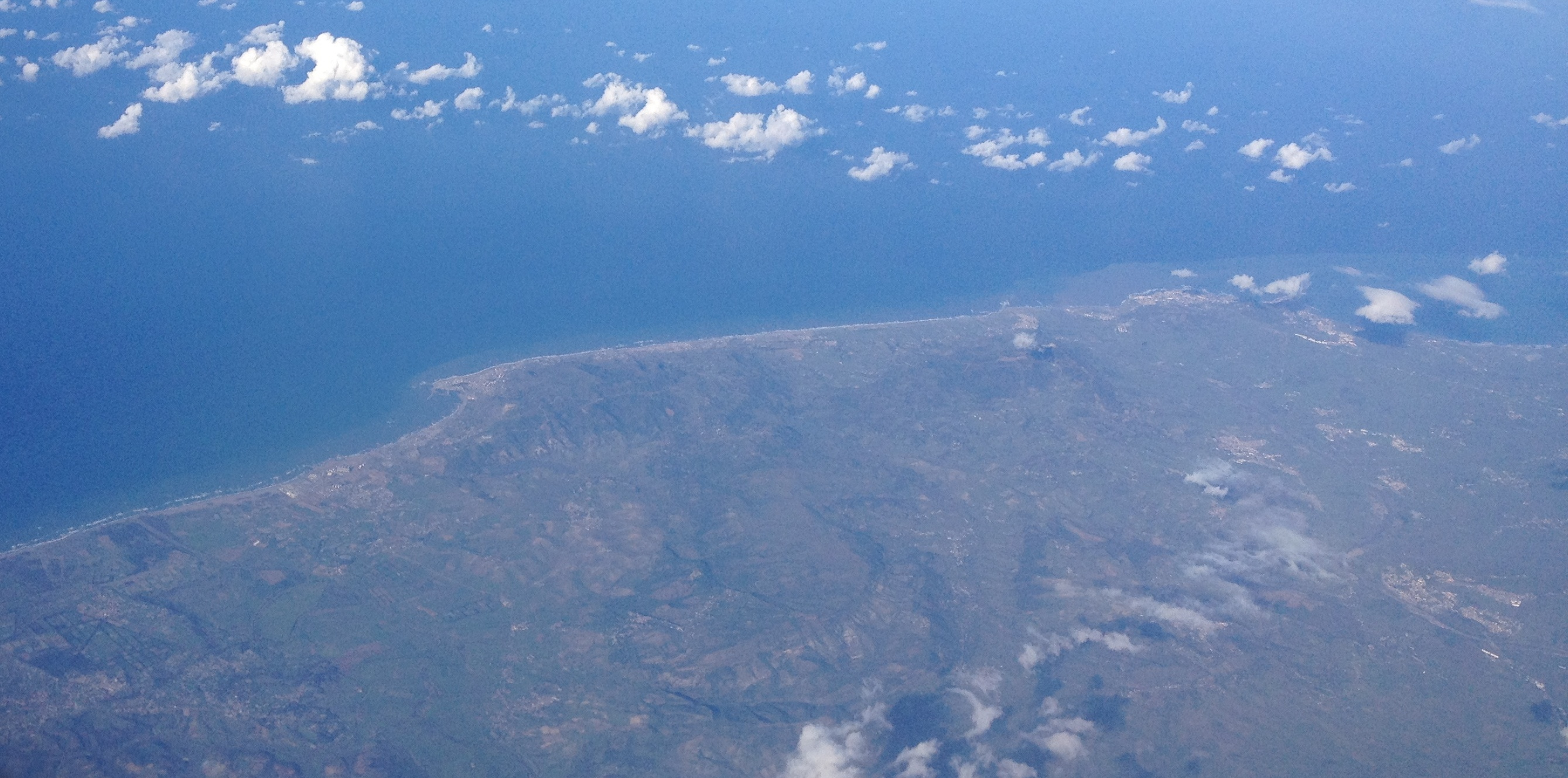 An Aerial view of Algeria (Cap Djinet).